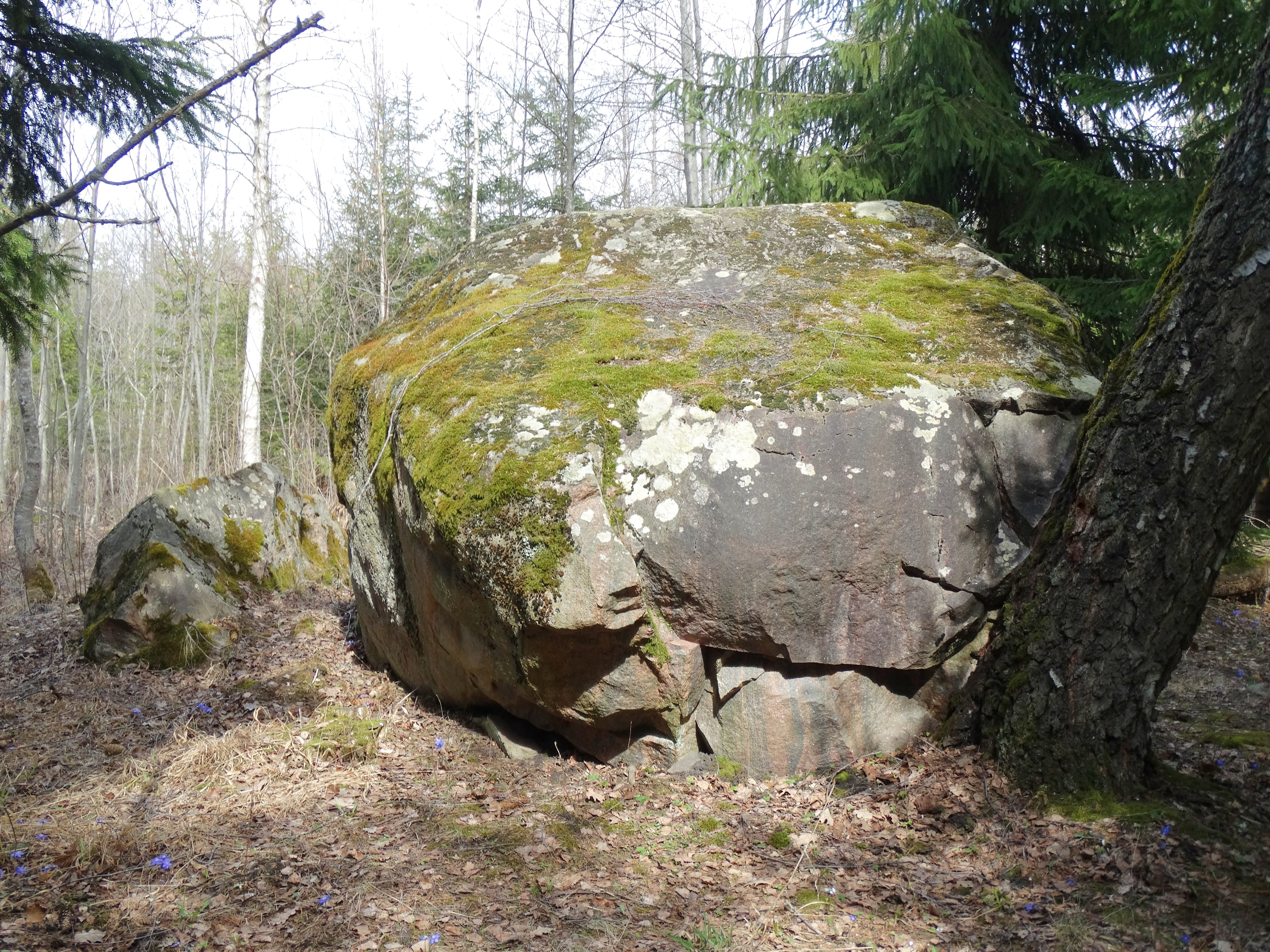 Angel's Stone in Baisogala forest, Radviliškis District, Lithuania